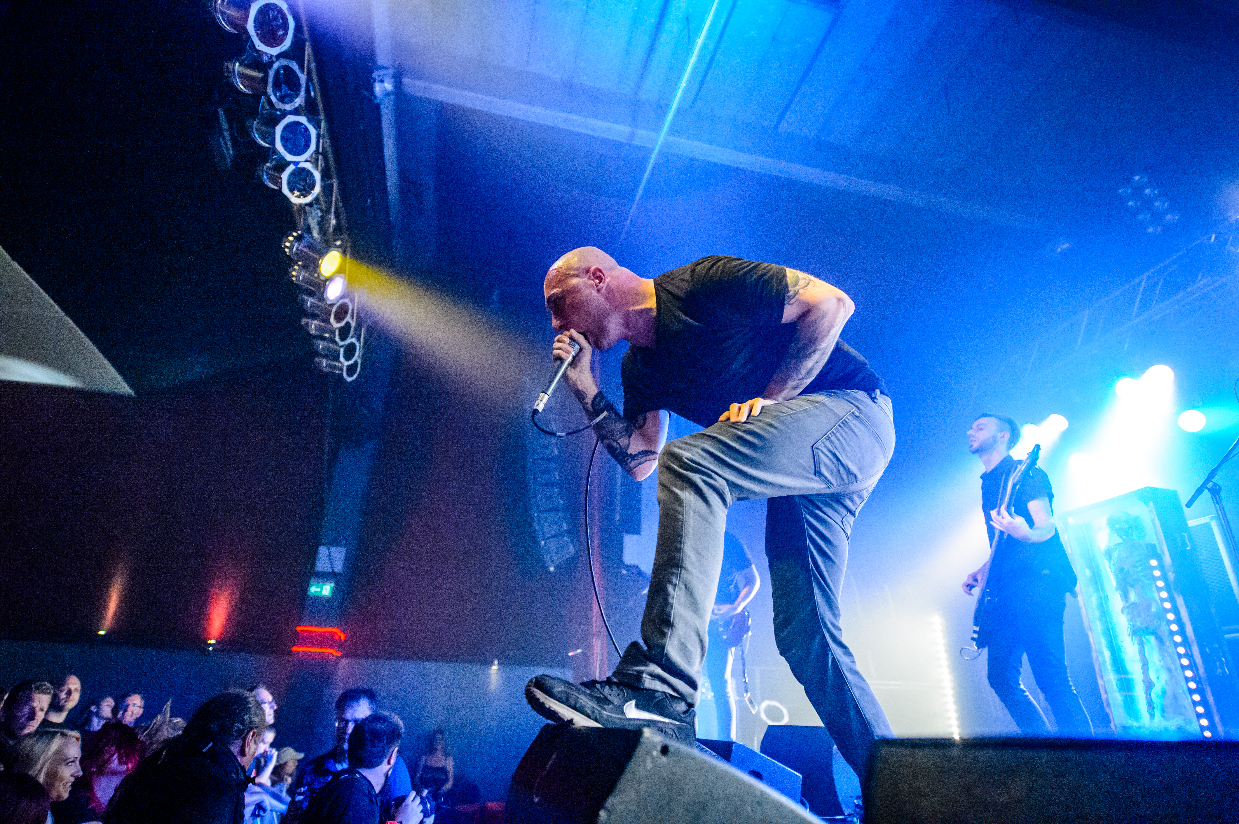 Aborted; RheinRiot Köln 2016